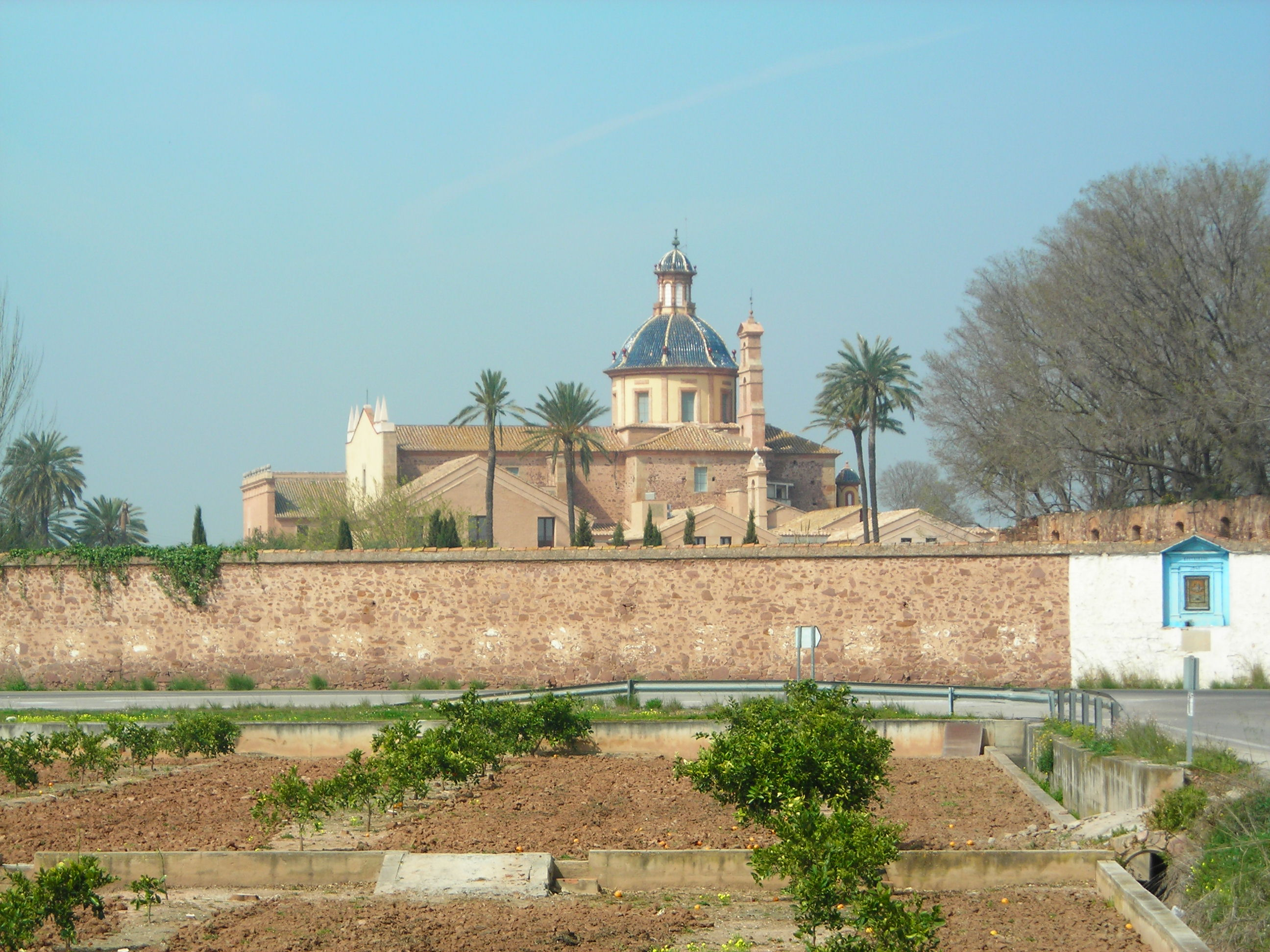 Carthusian Charterhouse situated in El Puig, Valencia